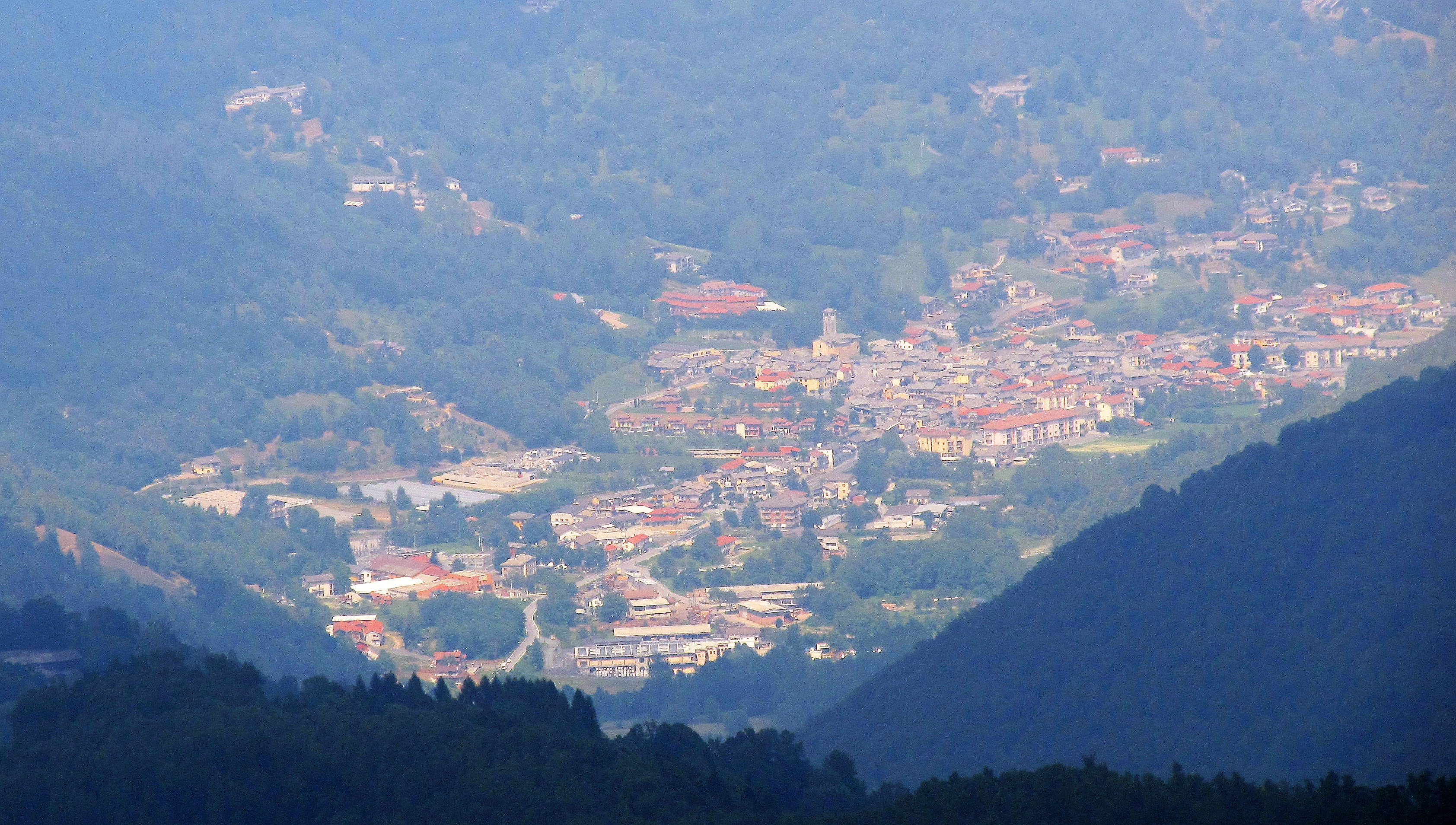 Brossasco (CN, Italy) from Ciabra pass